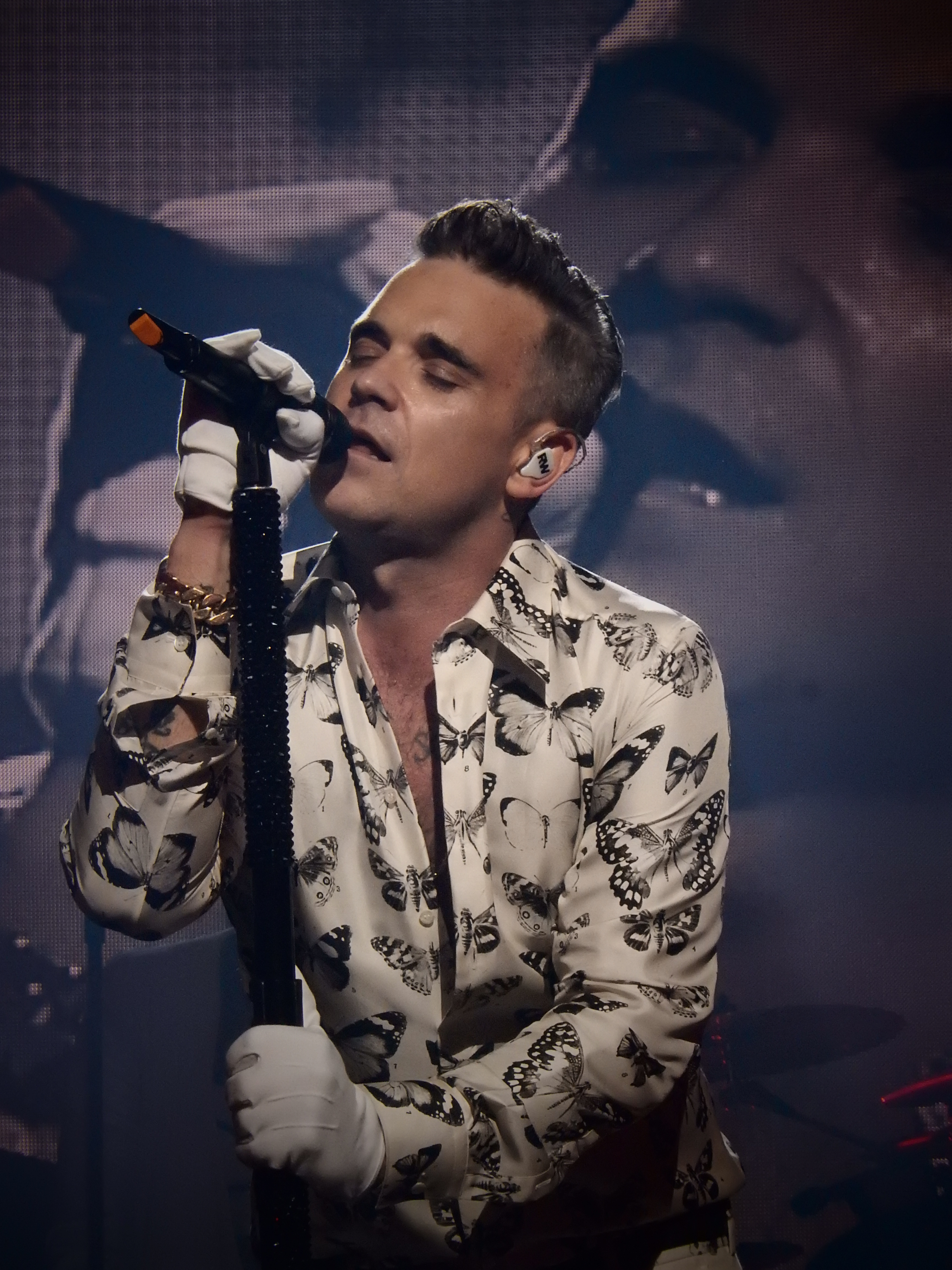 Robbie Williams, Roundhouse, London (Apple Music Festival)